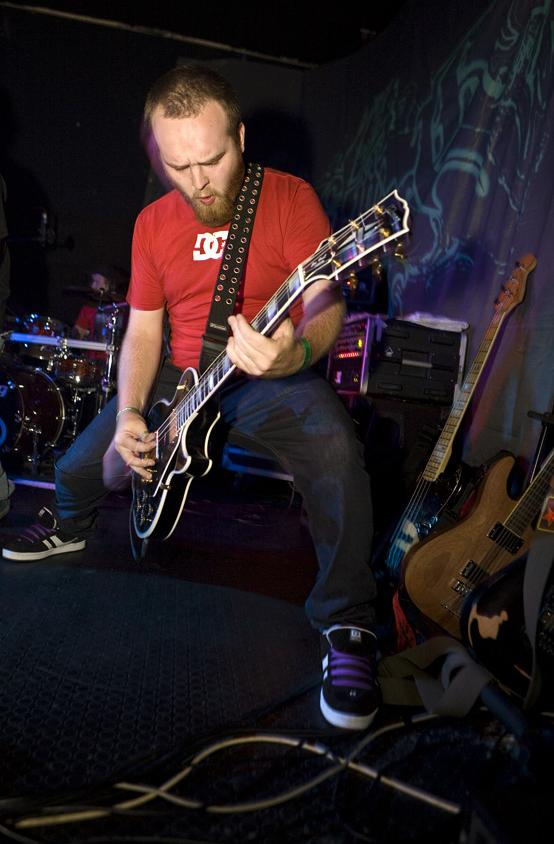 Dutch guitar player Jon Symons of Intwine performing at the Köln Underground concert on August 14th, 2009.